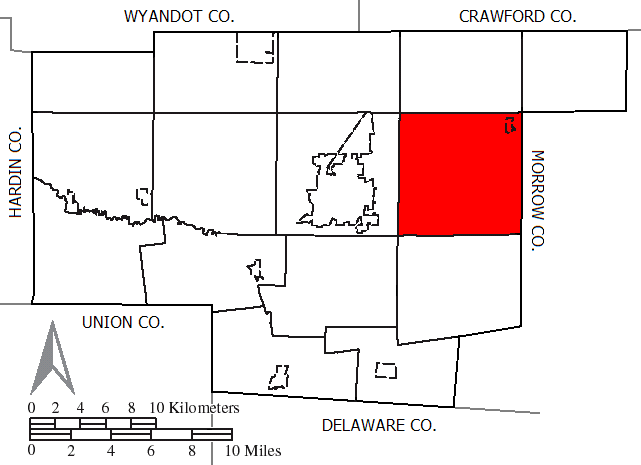 Made by the US Census and modified by myself to highlight the township